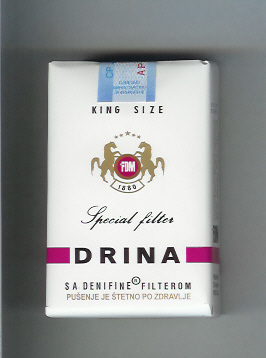 An old pack of Bosnian Drina cigarettes, with a Bosnian text warning at the bottom of the pack. The image is used to identify Drina, a notable product or service. The significance of the logo is to serve as the primary means of visual identification at the top of the article dedicated to the entity in question, and to help the reader identify the product or service, assure the readers that they have reached the right article containing critical commentary about that product or service, and illustrate branding associations of the product or service in a way that words alone could not convey. There are next to no pictures of this cigarette brand, and it will be only used on this particular wiki, to show the visitors what the pack looks like.